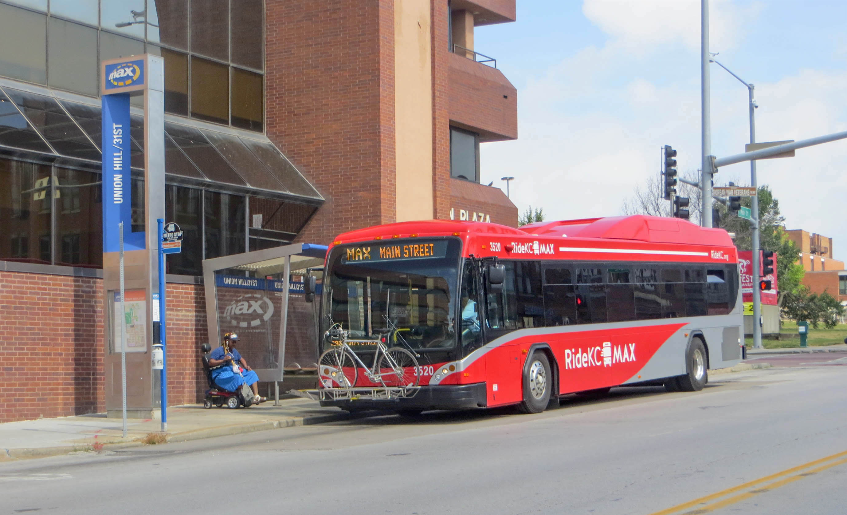 KCATA bus 3520, on the RideKC MAX line, at the southbound Union Hill/31st stop, on Main Street at 31st Street, in Kansas City, Missouri. Bus 3520 is a 2010 Gillig BRT bus.